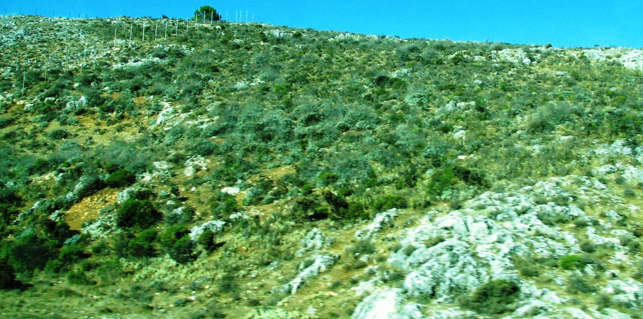 Rocks in Andalucía - Spain